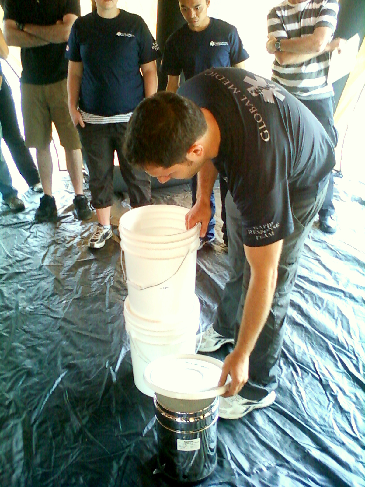 GlobalMedic instructor demonstrating a small gravity-fed water purification unit, Toronto, June 2011